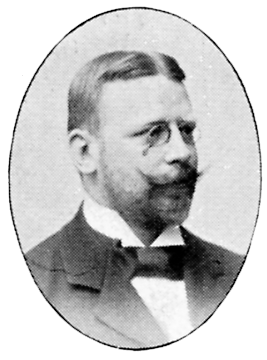 Image scanned from the book "Svenskt Porträttgalleri XX - Arkitekter, Bildhuggare, Målare m.fl. " ("Swedish Portrait Gallery XX - Architects, Sculptors, Painters, ") published 1901